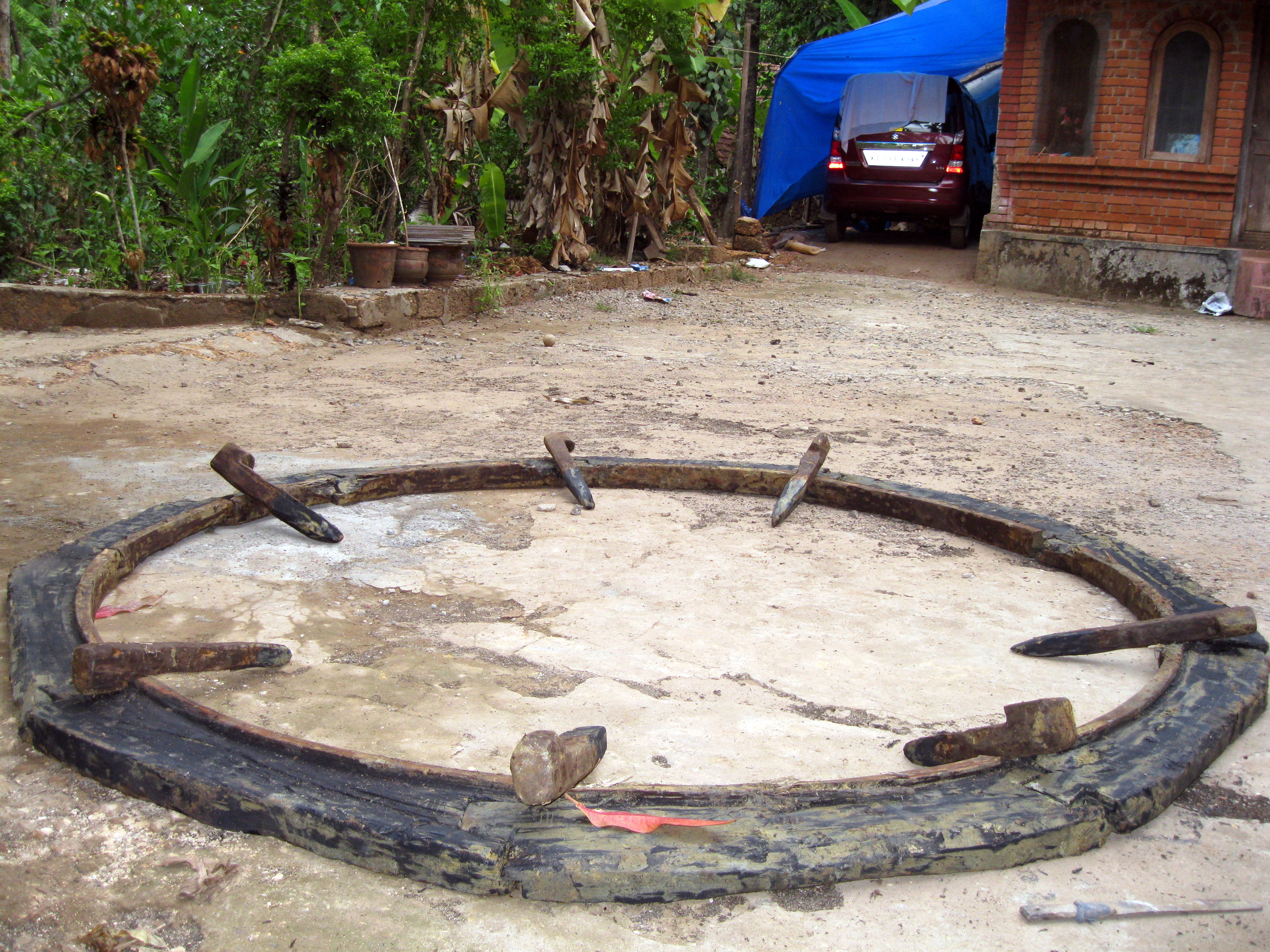 wooden circular ring fitted bottom of well